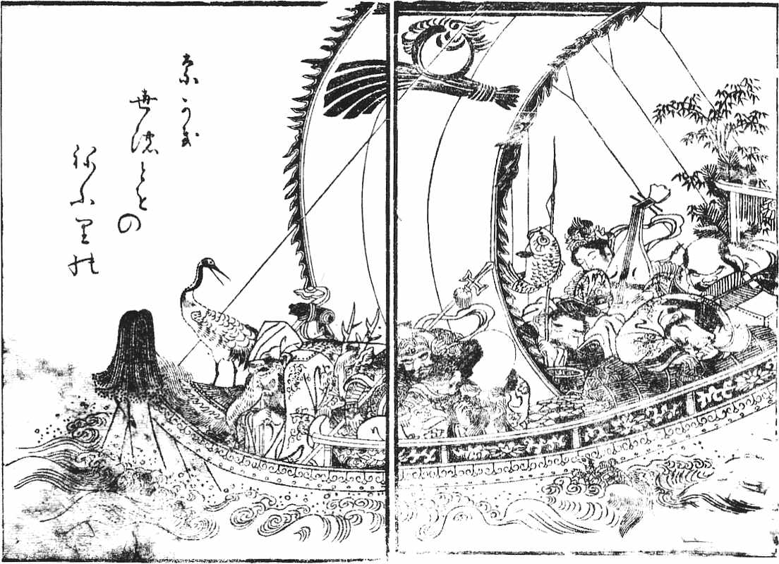 Takarabune (宝船, a treasure ship carrying the Seven Lucky Gods) from the Gazu Hyakki Tsurezure Bukuro (百鬼徒然袋)